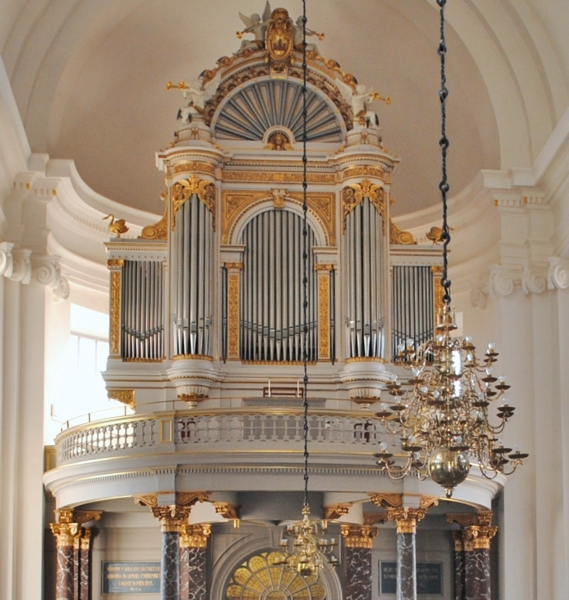 Kalmar Cathedral. Organ with facade from 1759 executed after drawings by Carl Fredrik Adelcrantz.